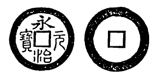 No. 69. (Barker: 63.1-63.4) Same as before but having on the obverse the character 元 nguyen instead of 通 thong, and the characters 治元 tri-nguyen written in the seal style. Copper coins issued by King 熙宗 HI-TONG during his first nien-hao (1675-1689).